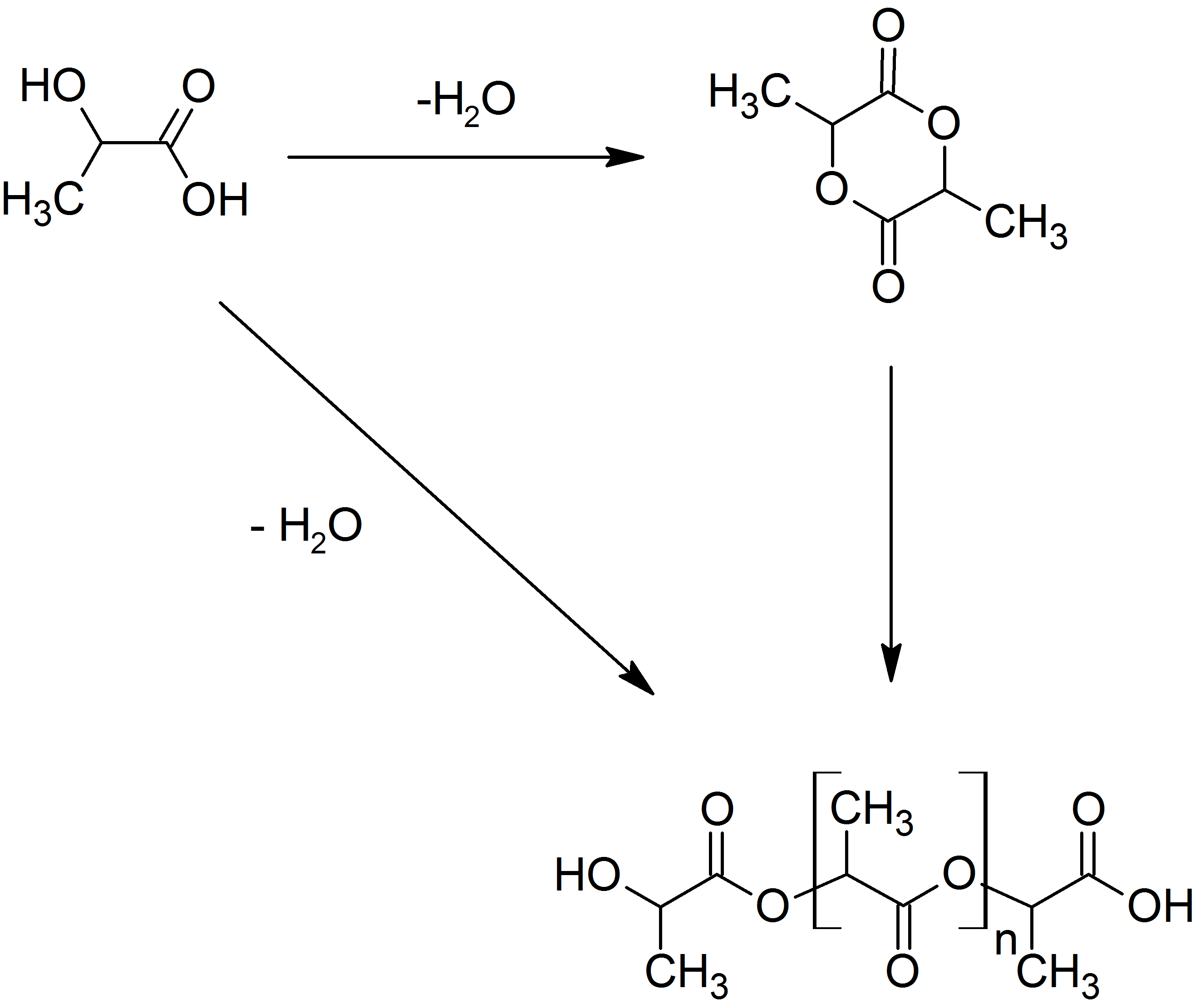 Generation of poly from lactic acid and lactide. This image of a simple structural formula is ineligible for copyright and therefore in the public domain, because it consists entirely of information that is common property and contains no original authorship.